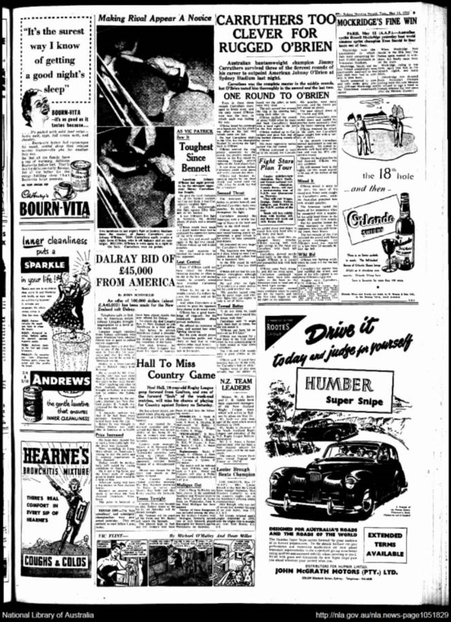 Carruthers too clever for rugged O'Brien